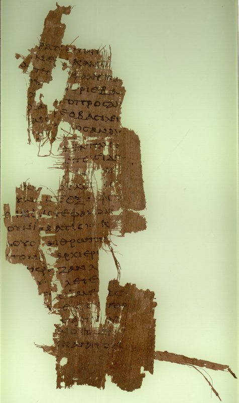 page of the codex with text of John 19:1-7